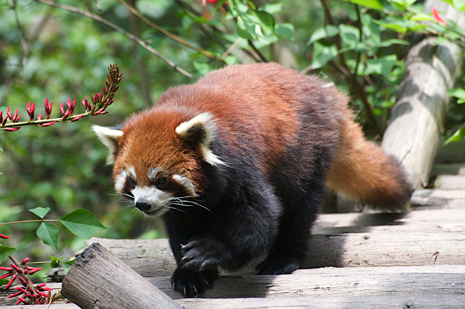 Red Panda